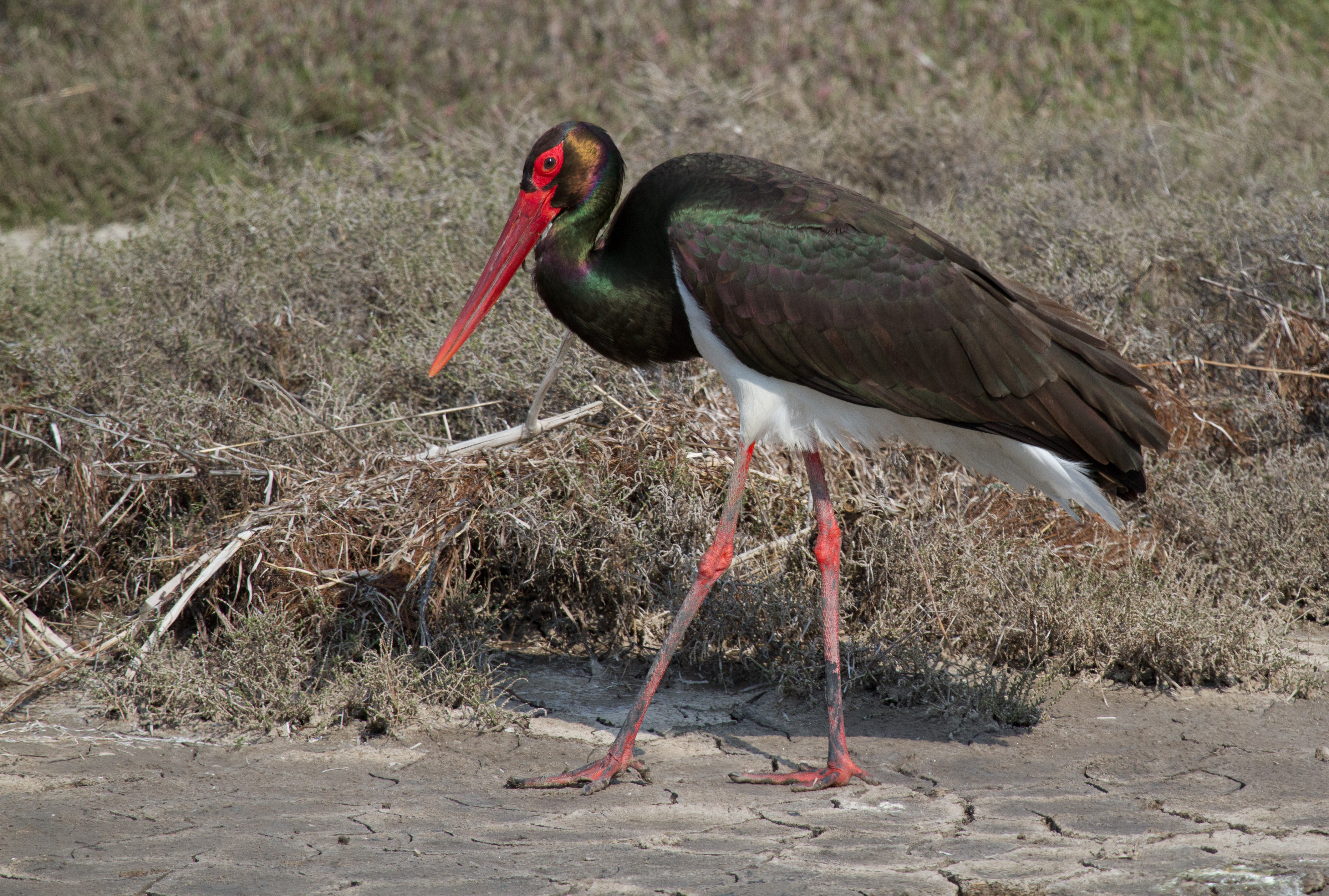 This is a photography of Natura 2000 protected area with ID GR4110004